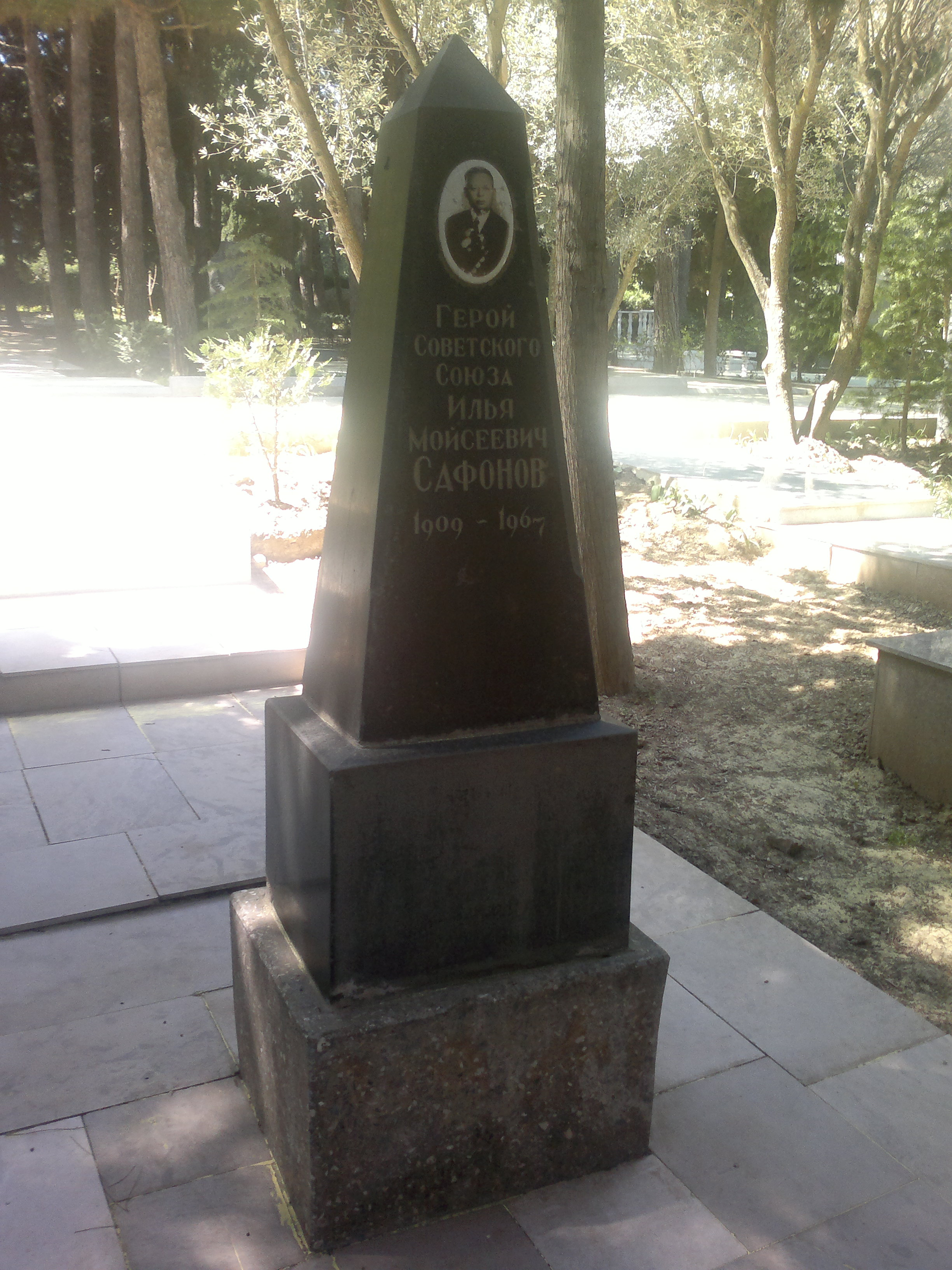 Burial of Ilya Safonov at Alley of Honor (Azerbaijan)